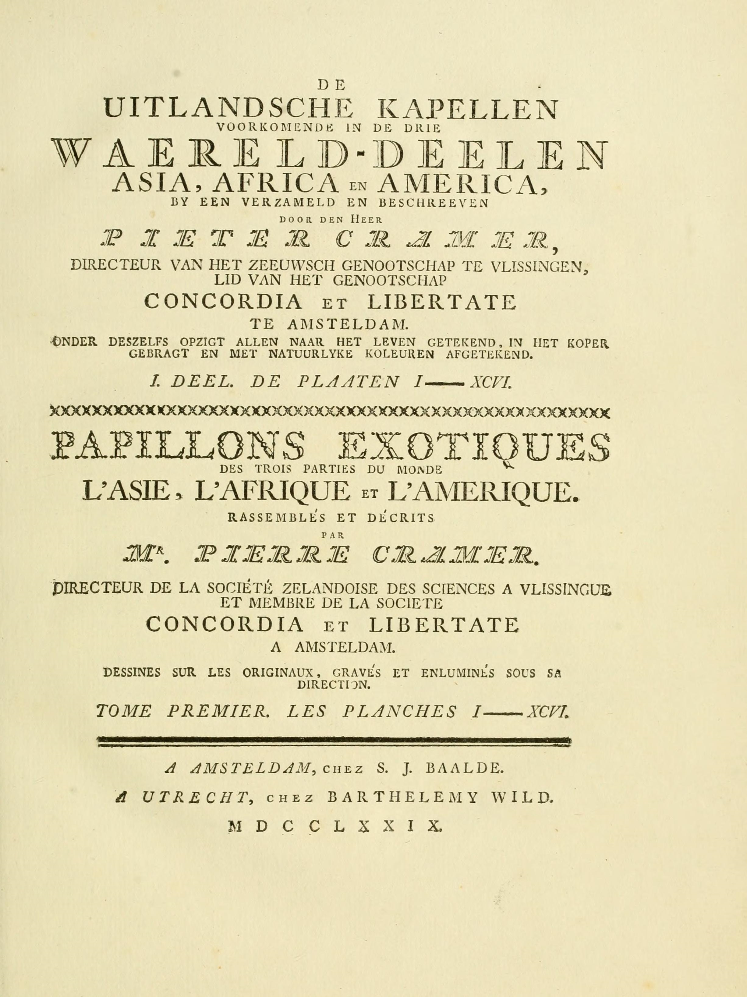 Title page